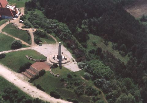 Pákozd, Hungary, aerialphotography